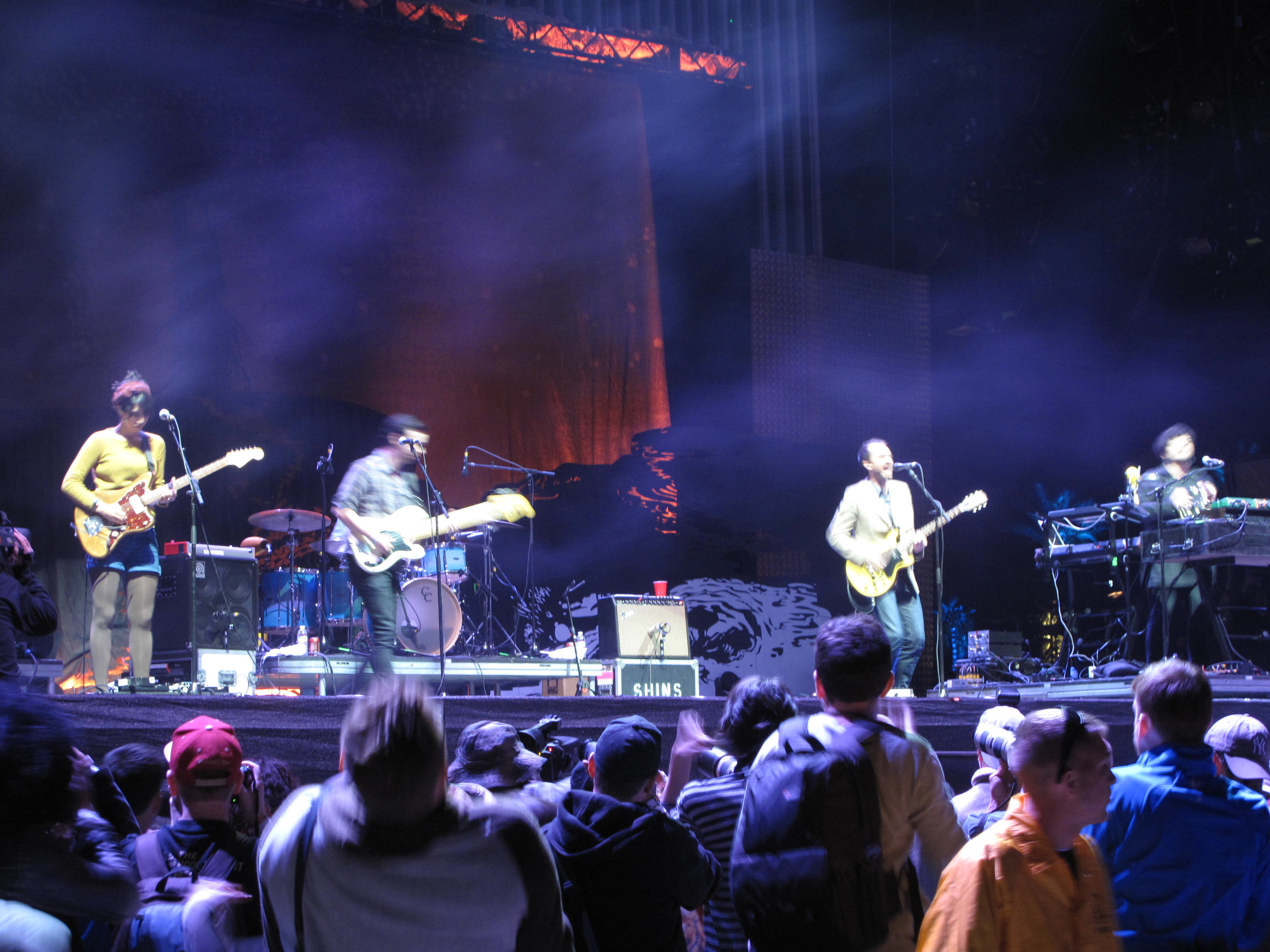 The Shins